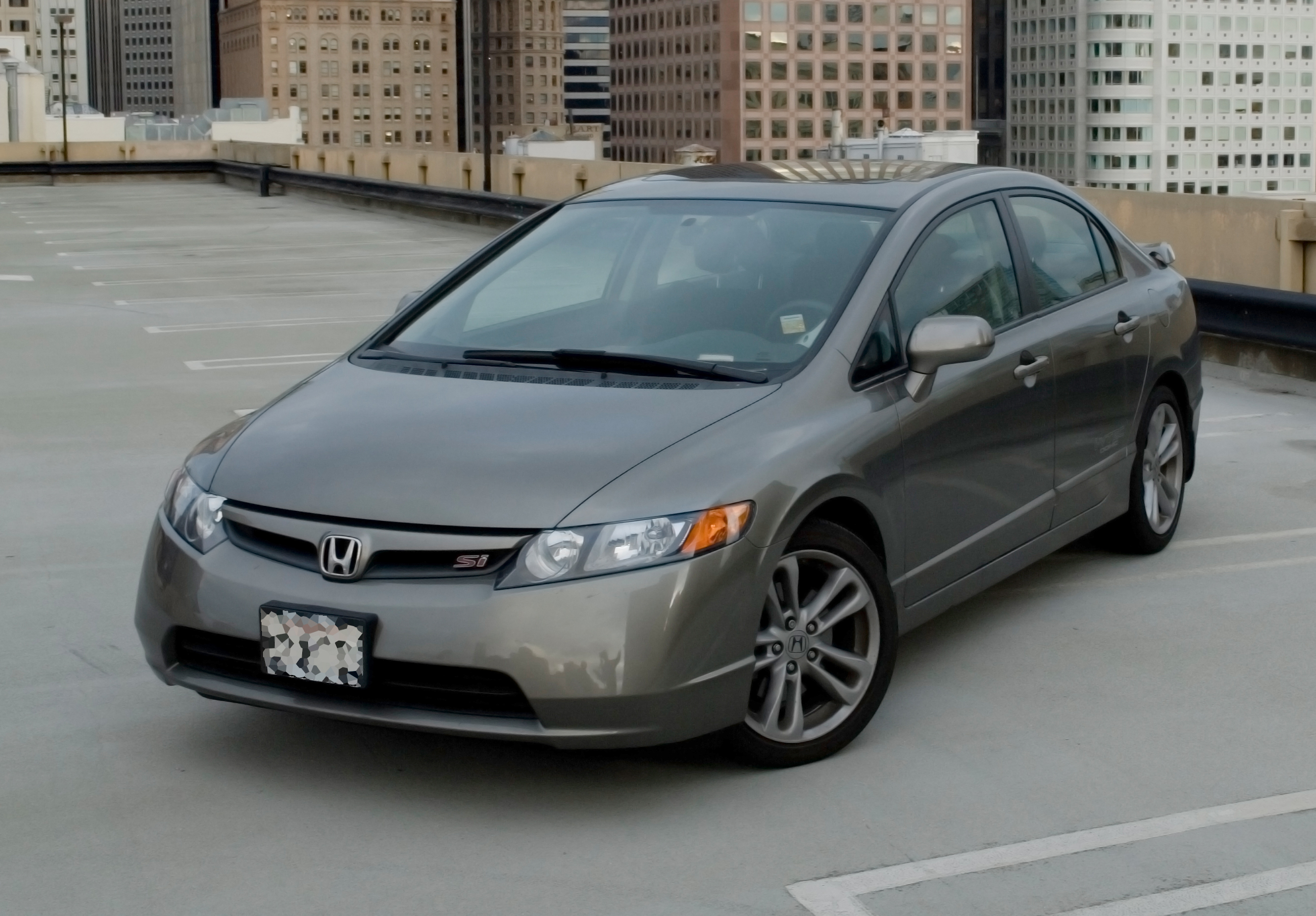 2006 Honda Civic Si on top of the Sutter Street Garage in San Fransisco